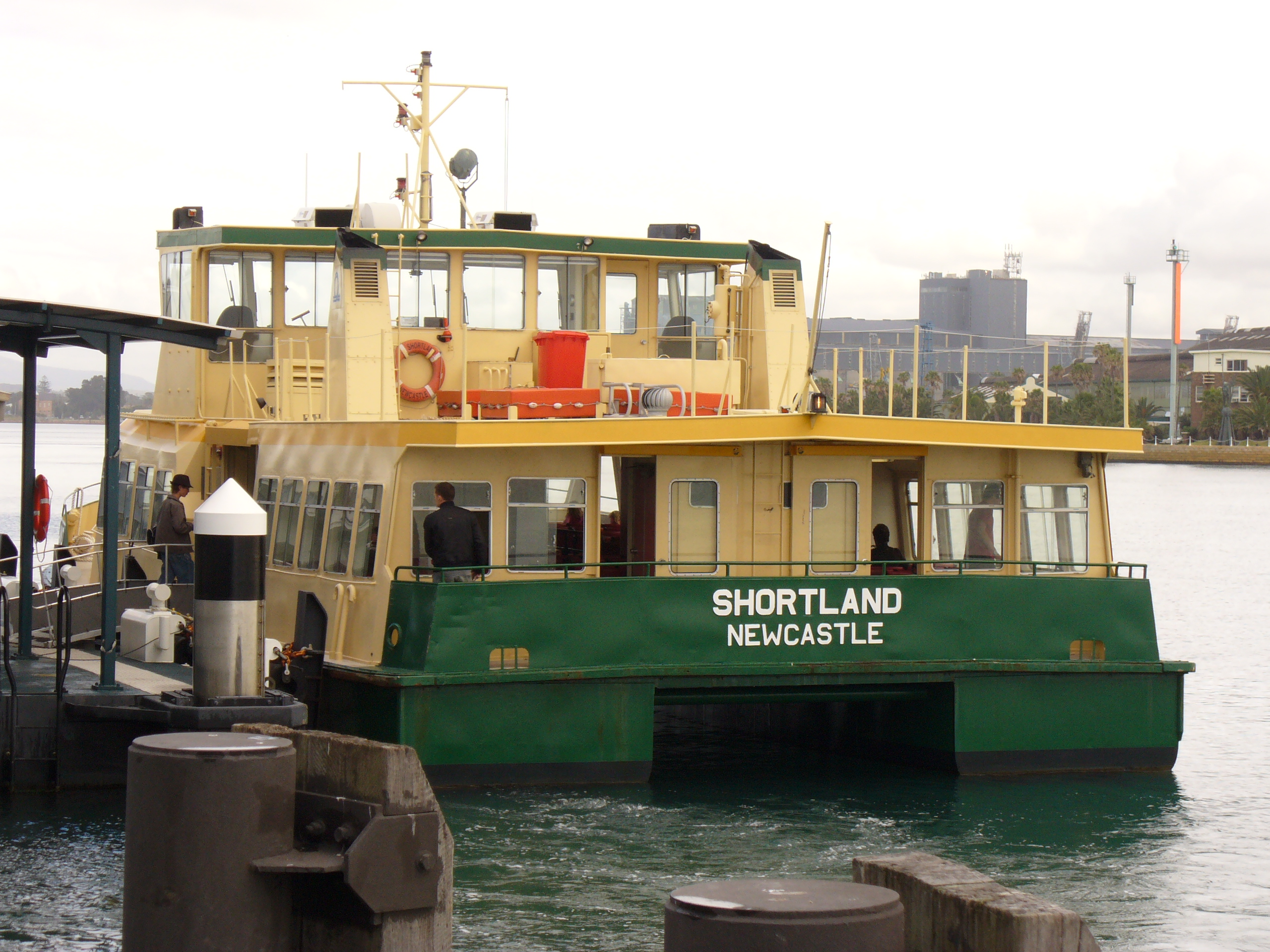 Stockton Ferry, Newcastle, New South Wales, Australia